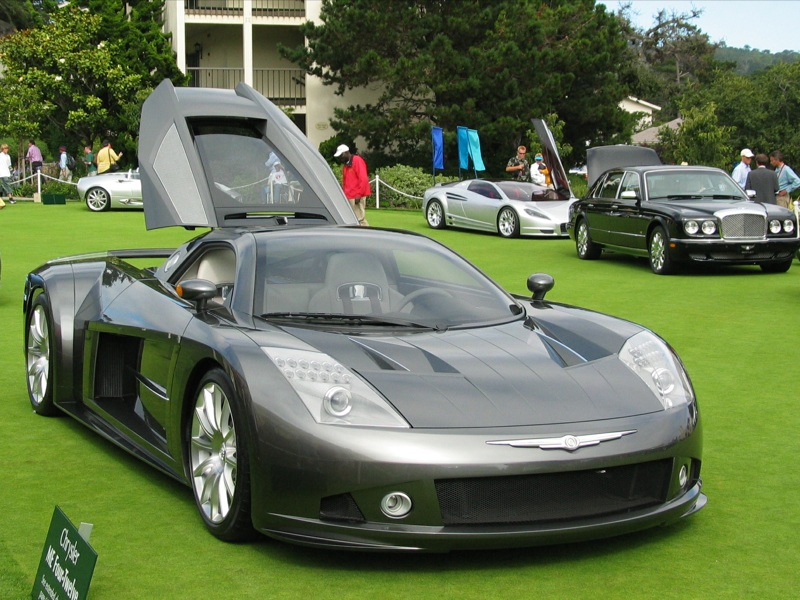 Chrysler ME Four-Twelve Concept at Pebble Beach Concours d'Elegance 2004